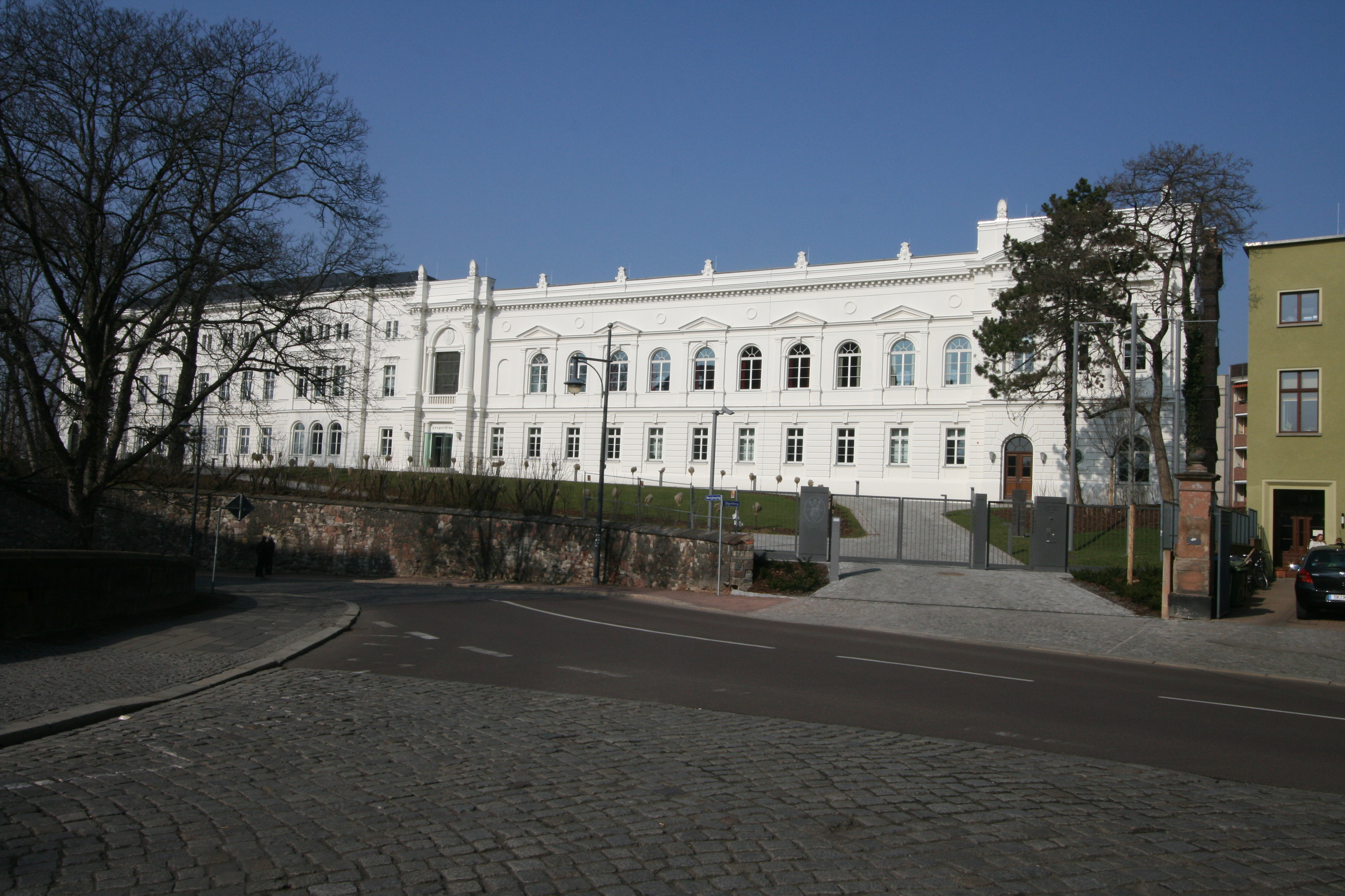 Main building of the German national academy Leopoldina in Halle (Saale)